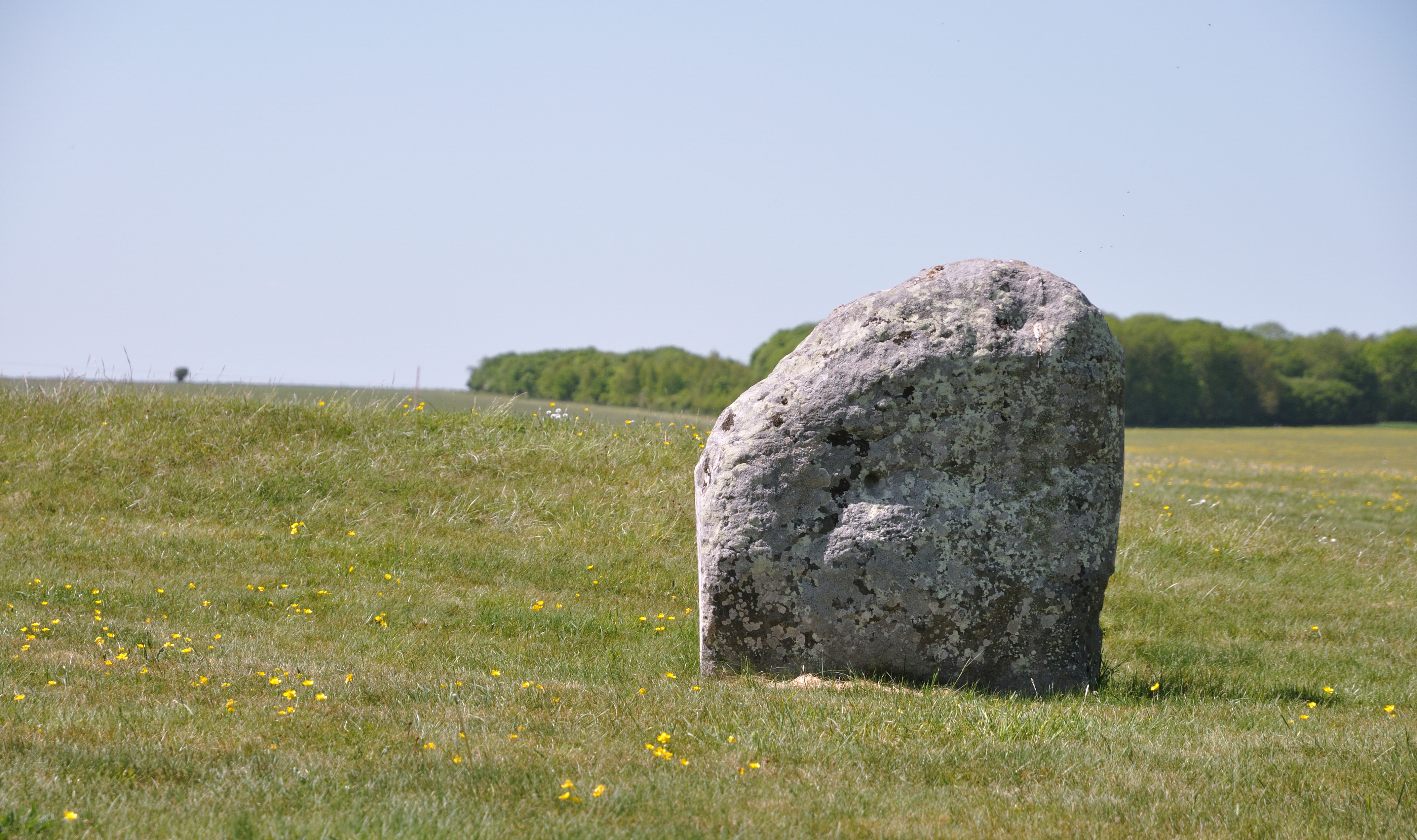 Stonehenge, maybe SS94 Station Stone 94?